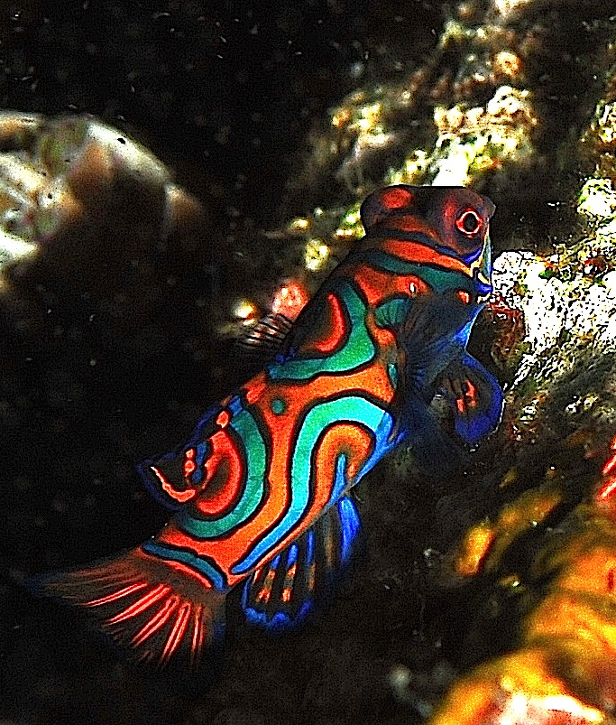 Mandarin fish--One of the most colorful,sought after and beautiful subjects of underwater macrophotography in the world. Small(about 6cm), extremely shy creature.